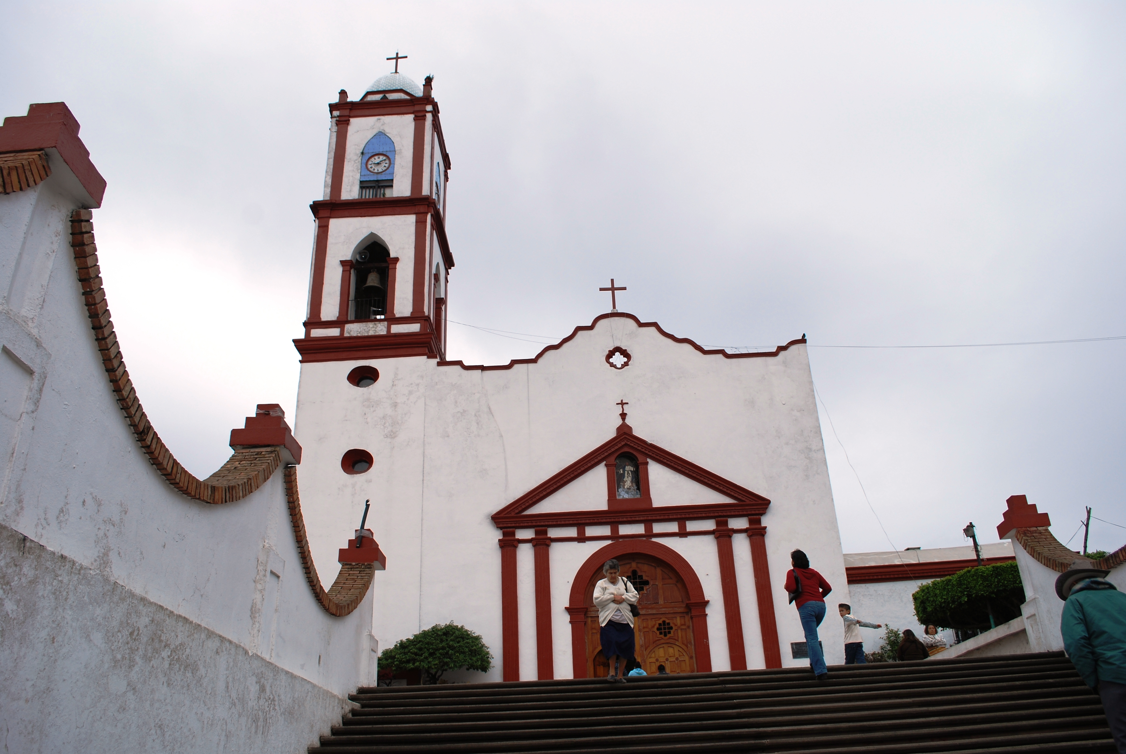 Facade of the Church of the Assumption, Papantla, Veracruz